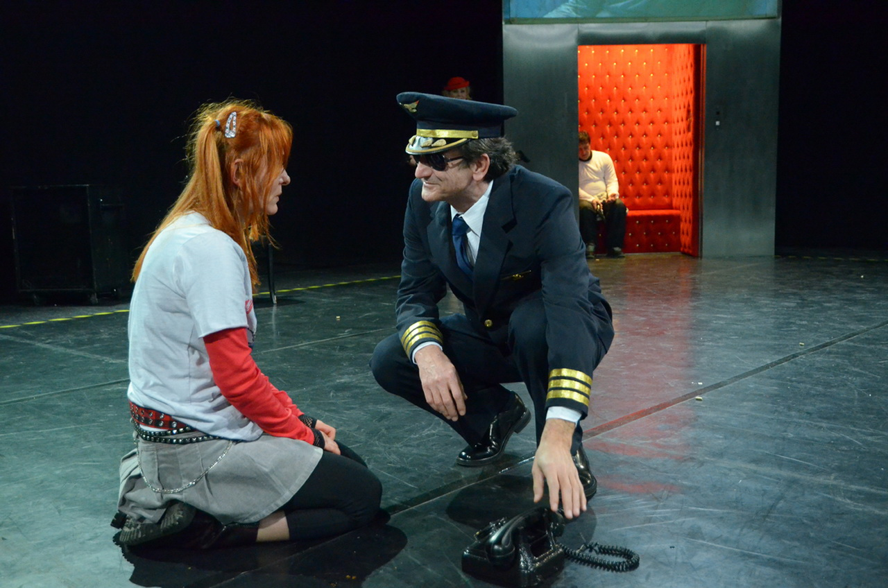 "Good Boy" written by Milan Marković, directed by Predrag Štrbac; Drama of the SNT, Novi Sad, 2008/09; Olivera Stamenković, Radoje Čupić Srpski (latinica): "Dobar dečak" Milana Markovića u režiji Predraga Štrpca; Drama SNP-a, Novi Sad, 2008/09; Olivera Stamenković, Radoje Čupić Српски (ћирилица): "Добар дечак" Милана Марковића у режији Предрага Штрпца; Драма СНП-а, Нови Сад, 2008/09; Оливера Стаменковић, Радоје Чупић